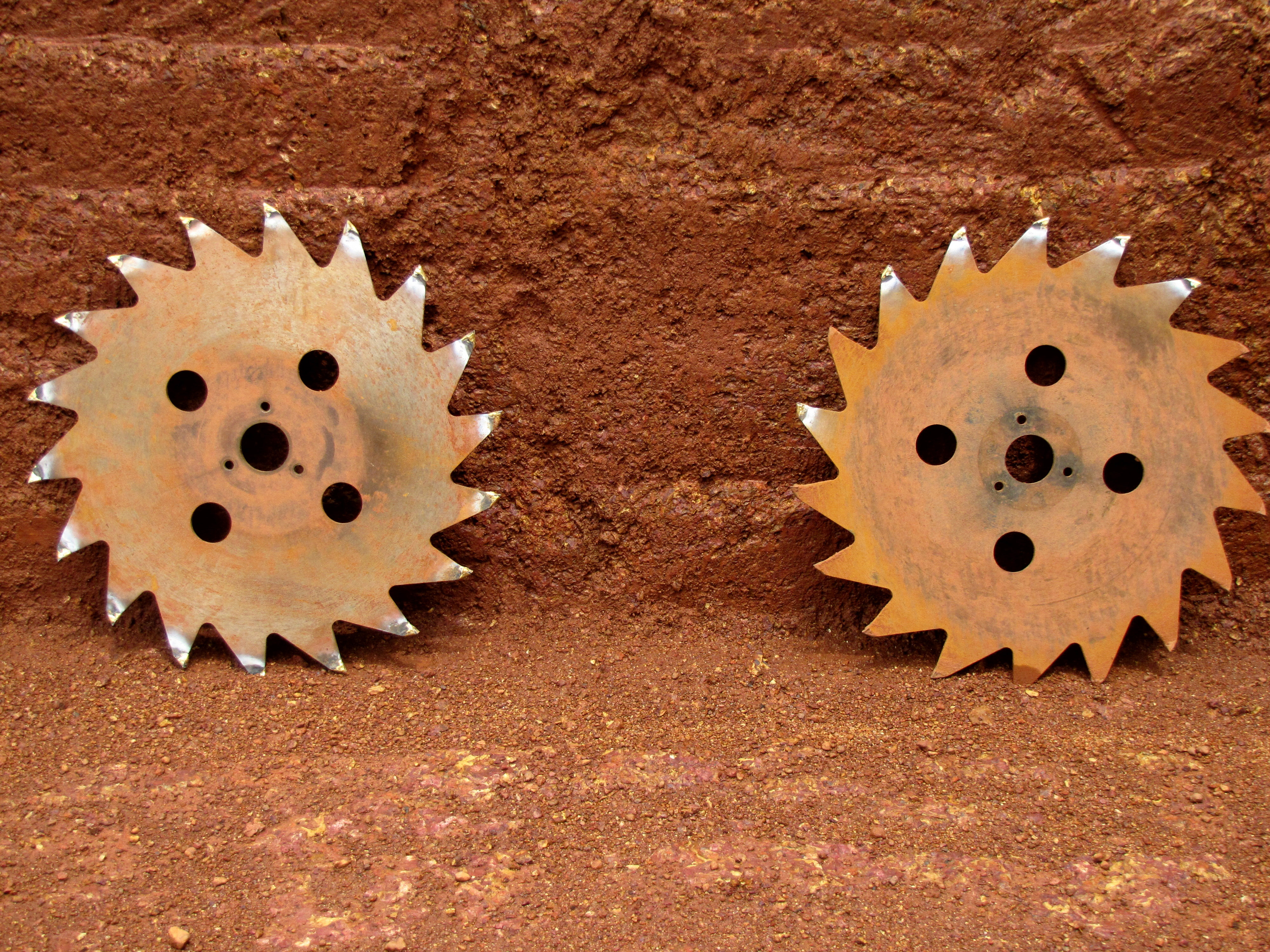 Blade of stone cutting machine